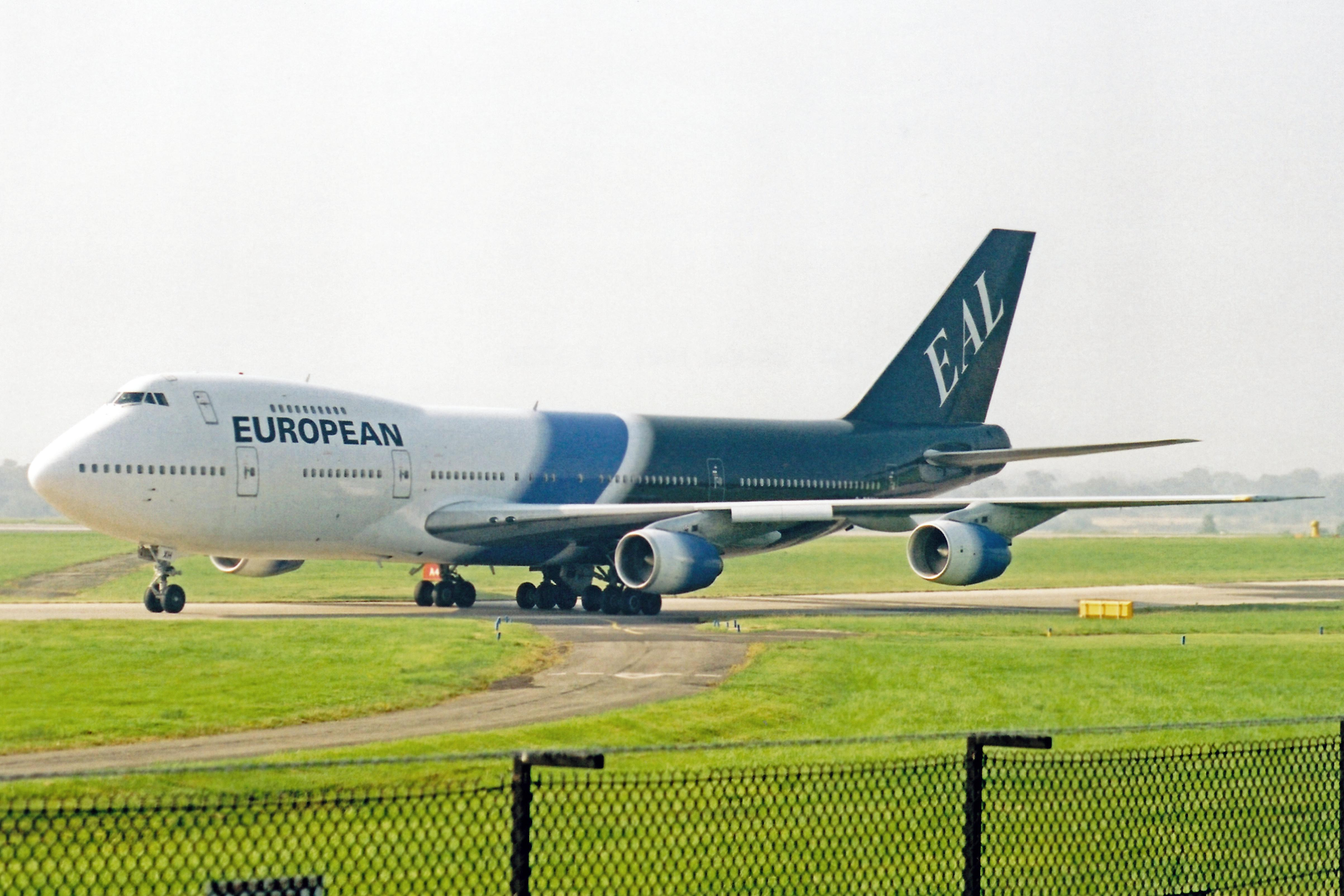 A picture of an airplane (name of it is on the file name).